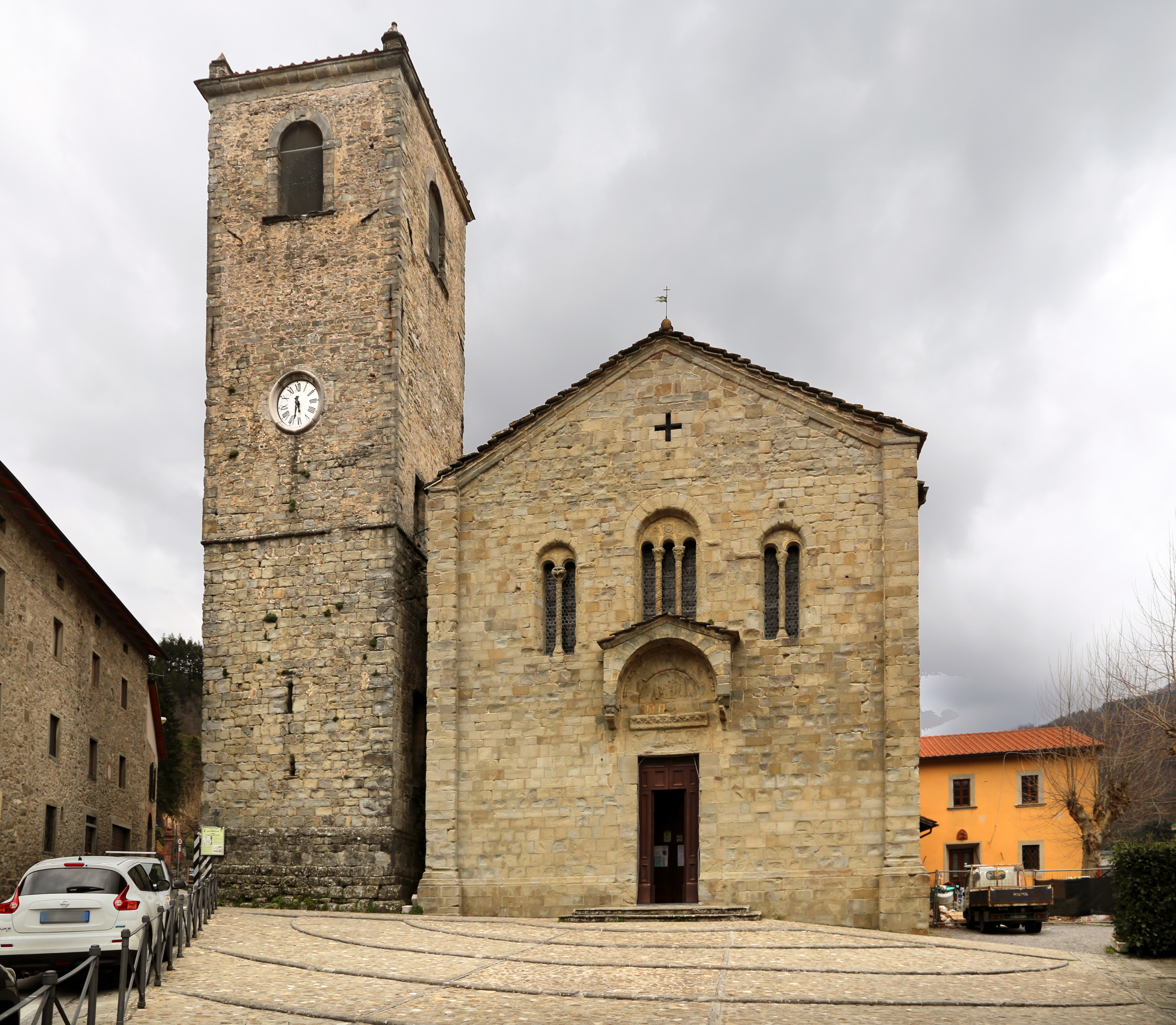 Santa Maria Assunta (Popiglio, San Marcello Piteglio)